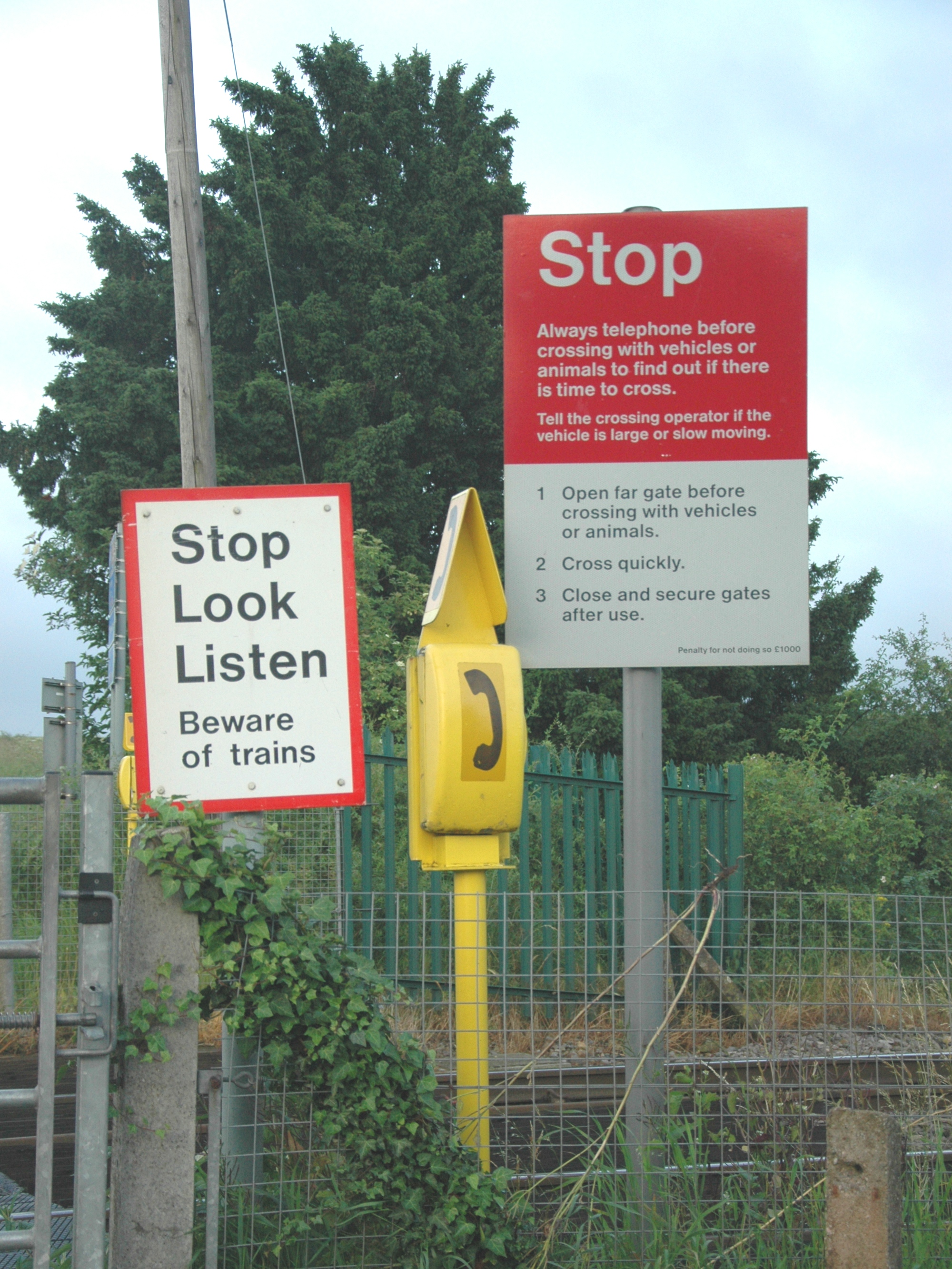 Tackley railway station, Oxfordshire: telephone and some of the signs on the west side of the user-operated level crossing.